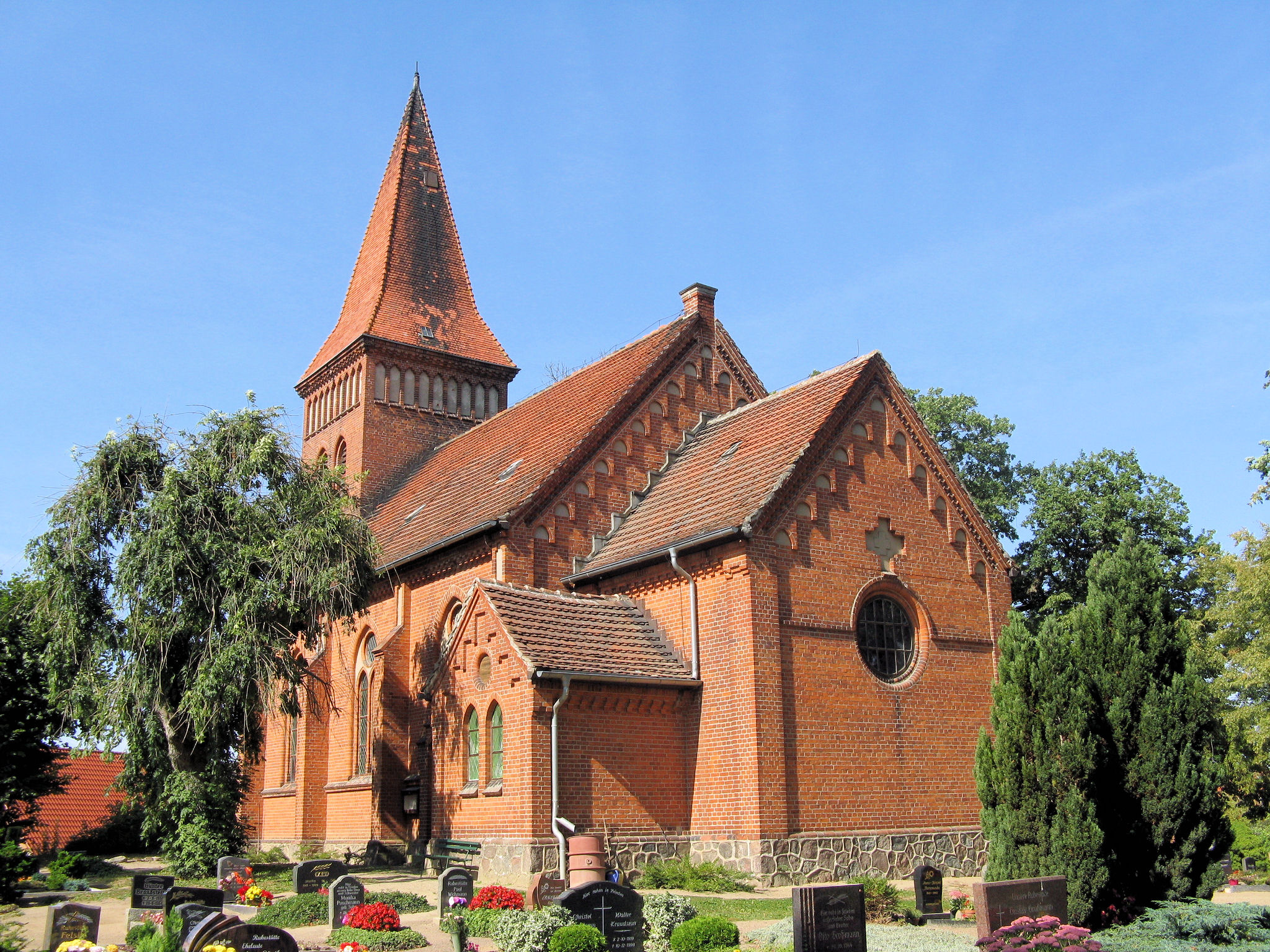 Church in Langhagen, disctrict Rostock, Mecklenburg-Vorpommern, Germany